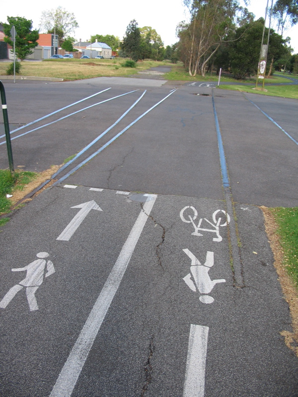 Remains of Inner Circle Railway Line, crossing Brunswick Street North, in Fitzroy North, Victoria, Australia. Railway line is now part of a bike path.